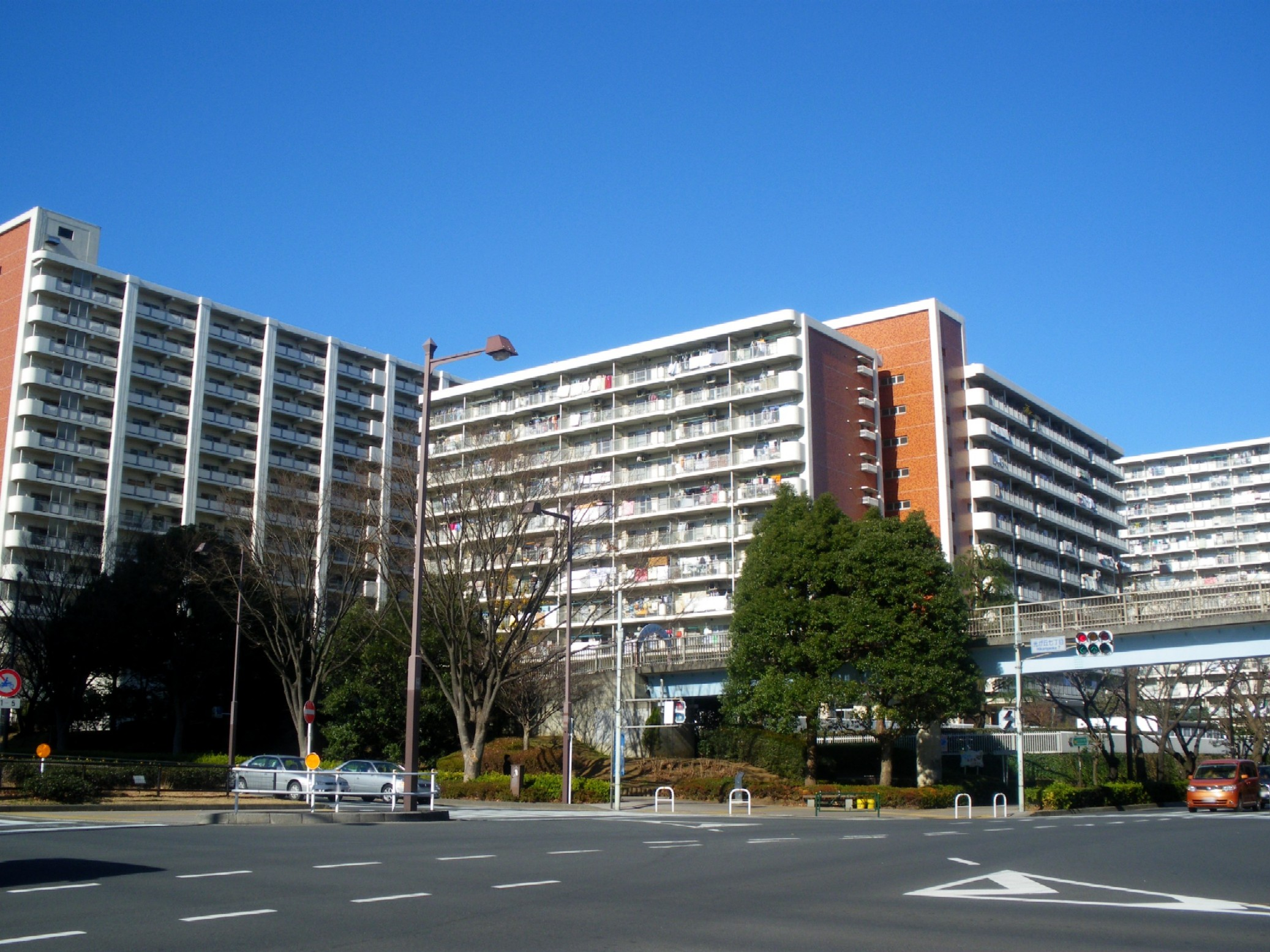 Nerima Hikarigaoka 7Chome